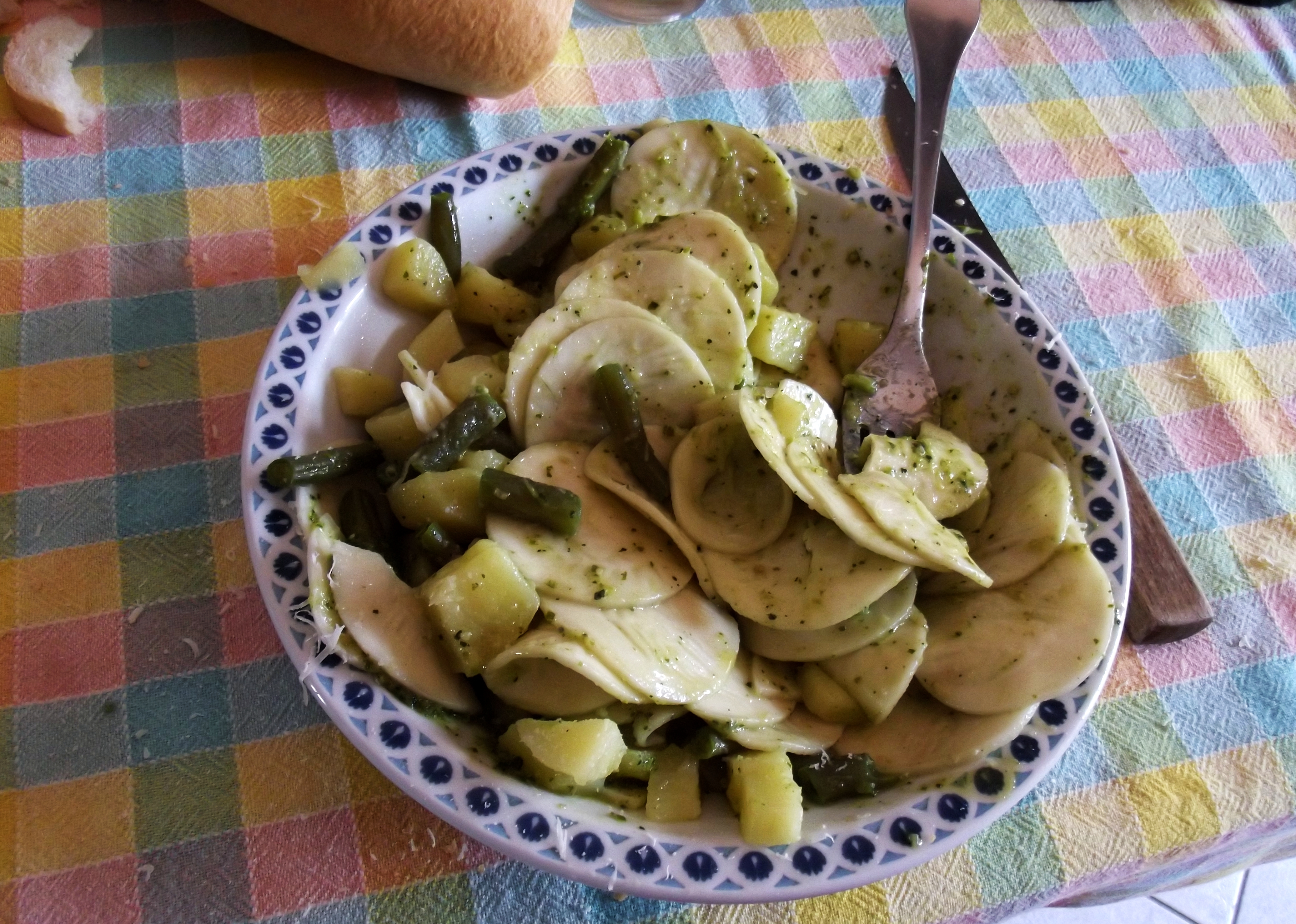 Croxetti al pesto (traditional ligurian recipe)